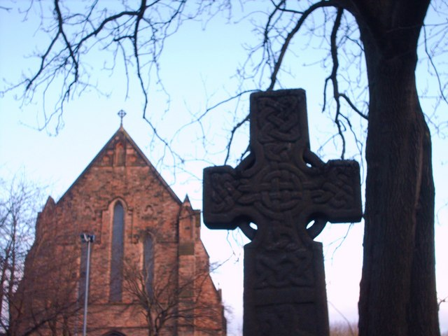 Celtic Cross at Govan Old Parish Church The present church is the fourth to be built in the ancient graveyard. The graveyard may date back to as early as the 9th century.